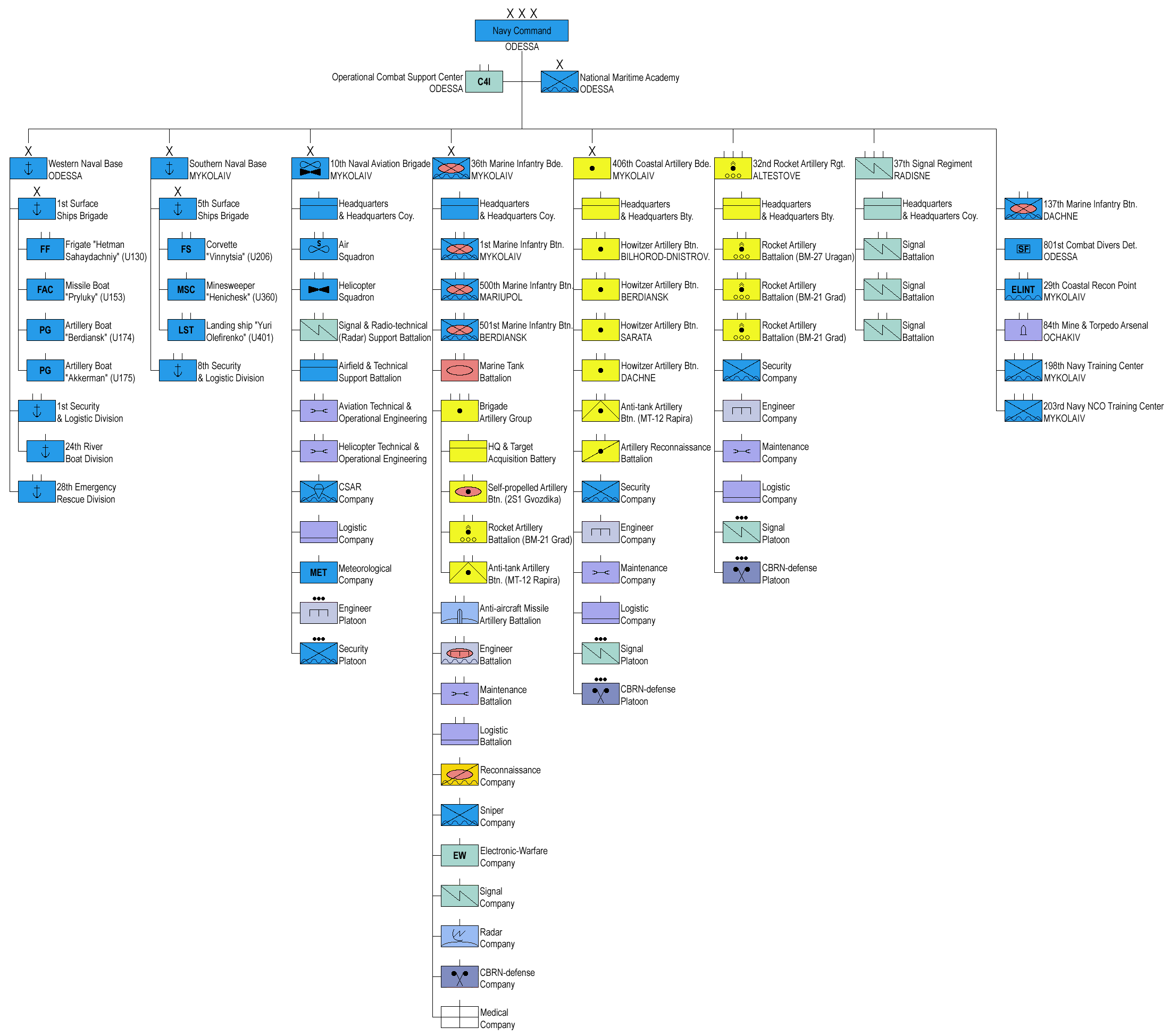 Structure of the Ukrainian Navy in 2017 as per the best available Ukrainian language sources.